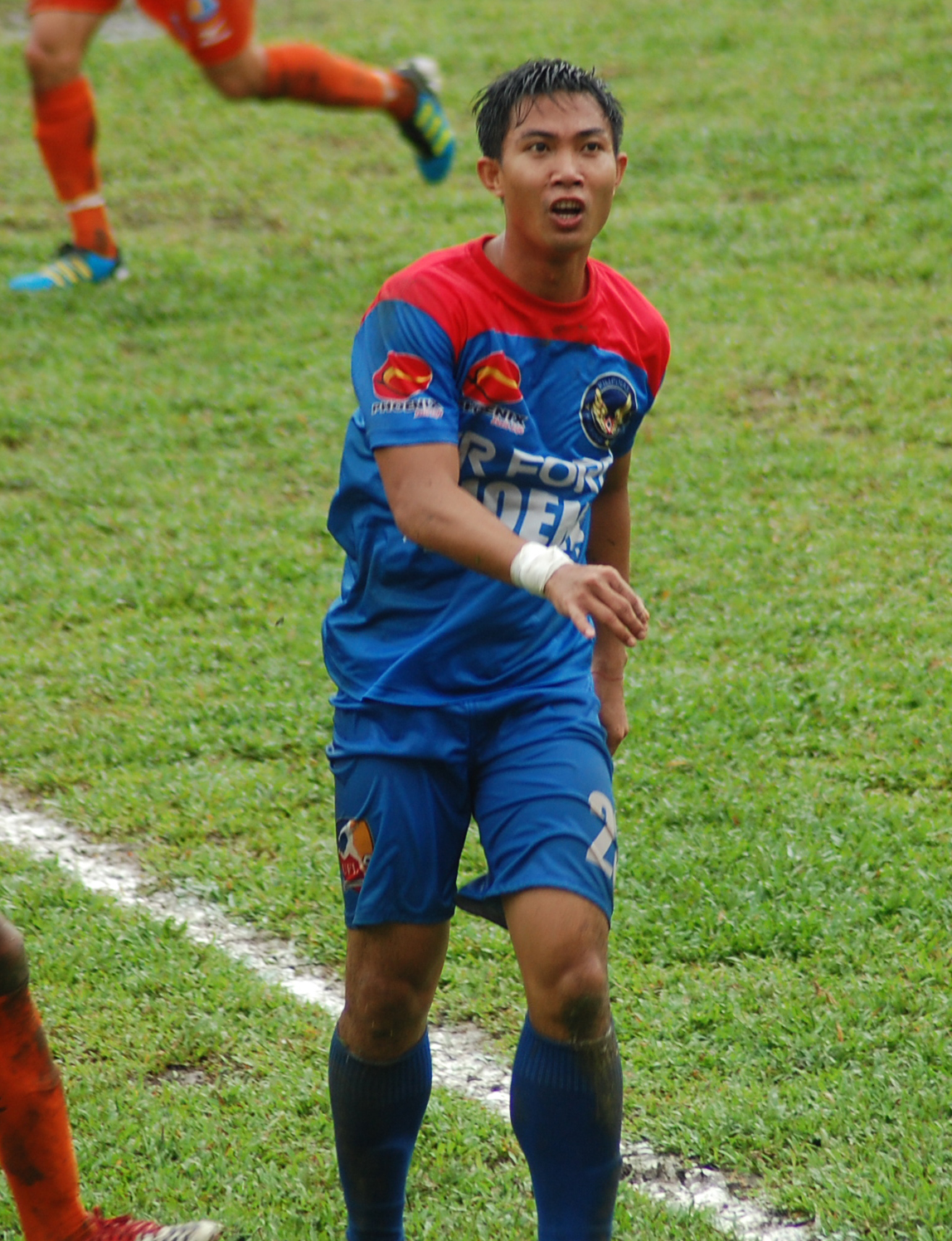 Ian Araneta, match against Loyola Meralco Sparks FC